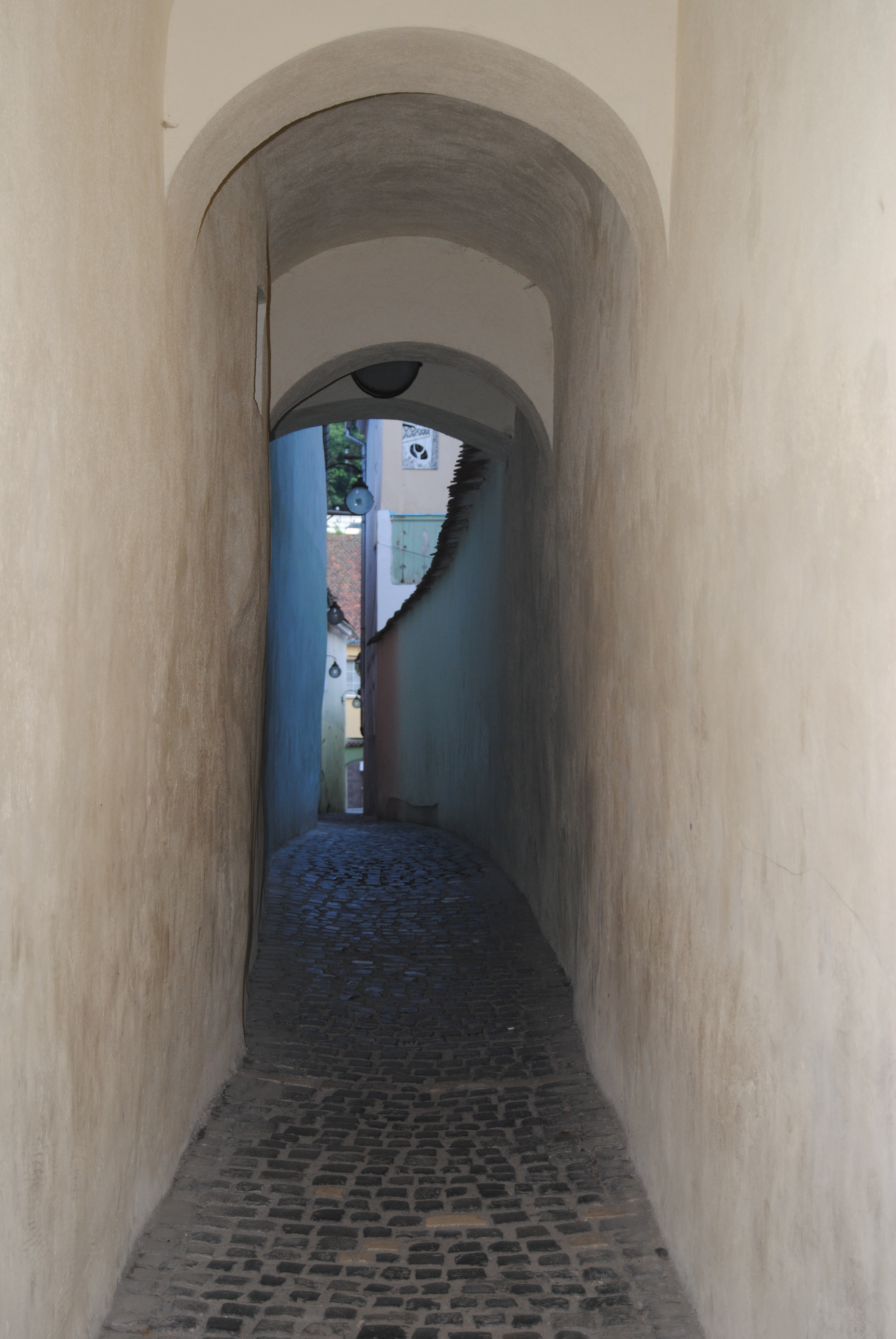 Sforii Street in Brașov, Romania